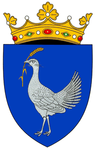 Coat of Arms of Rajon Drochia